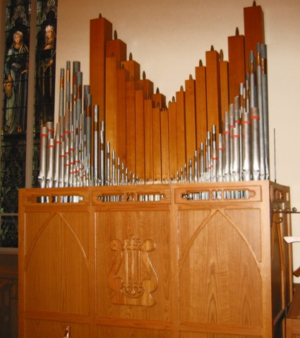 This is part of the pipe organ at St. Raphael's Cathedral in Dubuque, Iowa. This is part of the organ that is located in the choir area near the front of the church. For a photo of the main portion of the organ, please see [1]. I took this photo in the fall of 2005.